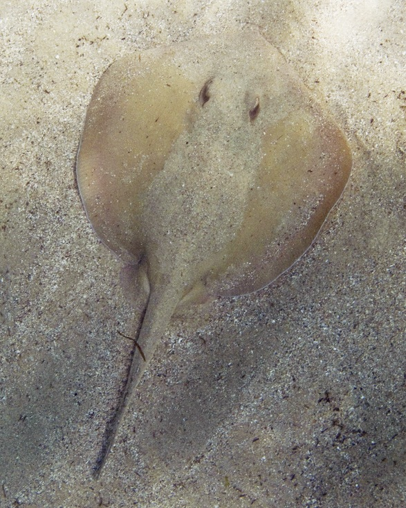 Common stingaree (Trygonoptera testacea) in Gordon's Bay, Sydney